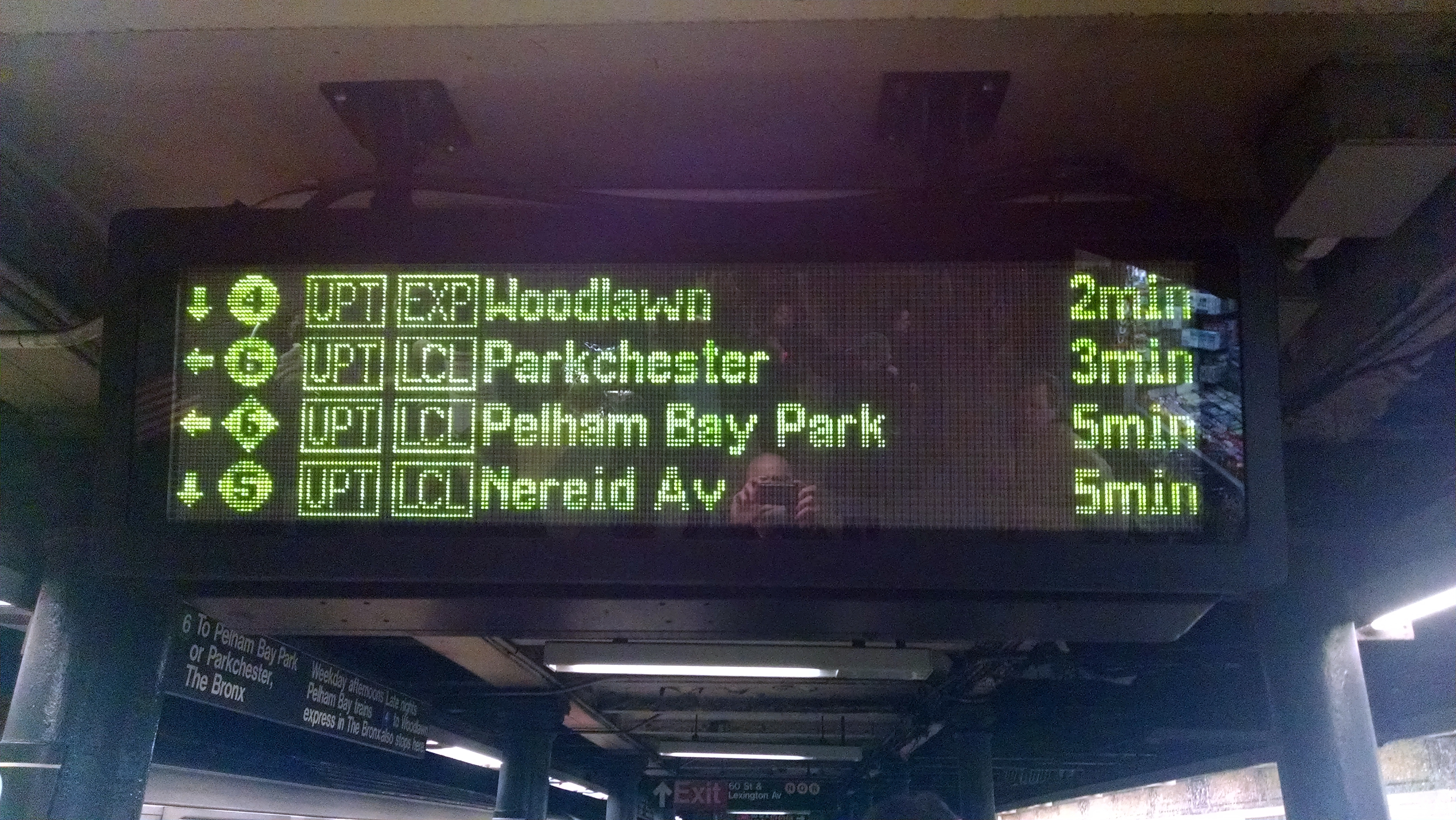 On the 4-5-6 and N-Q-R lines